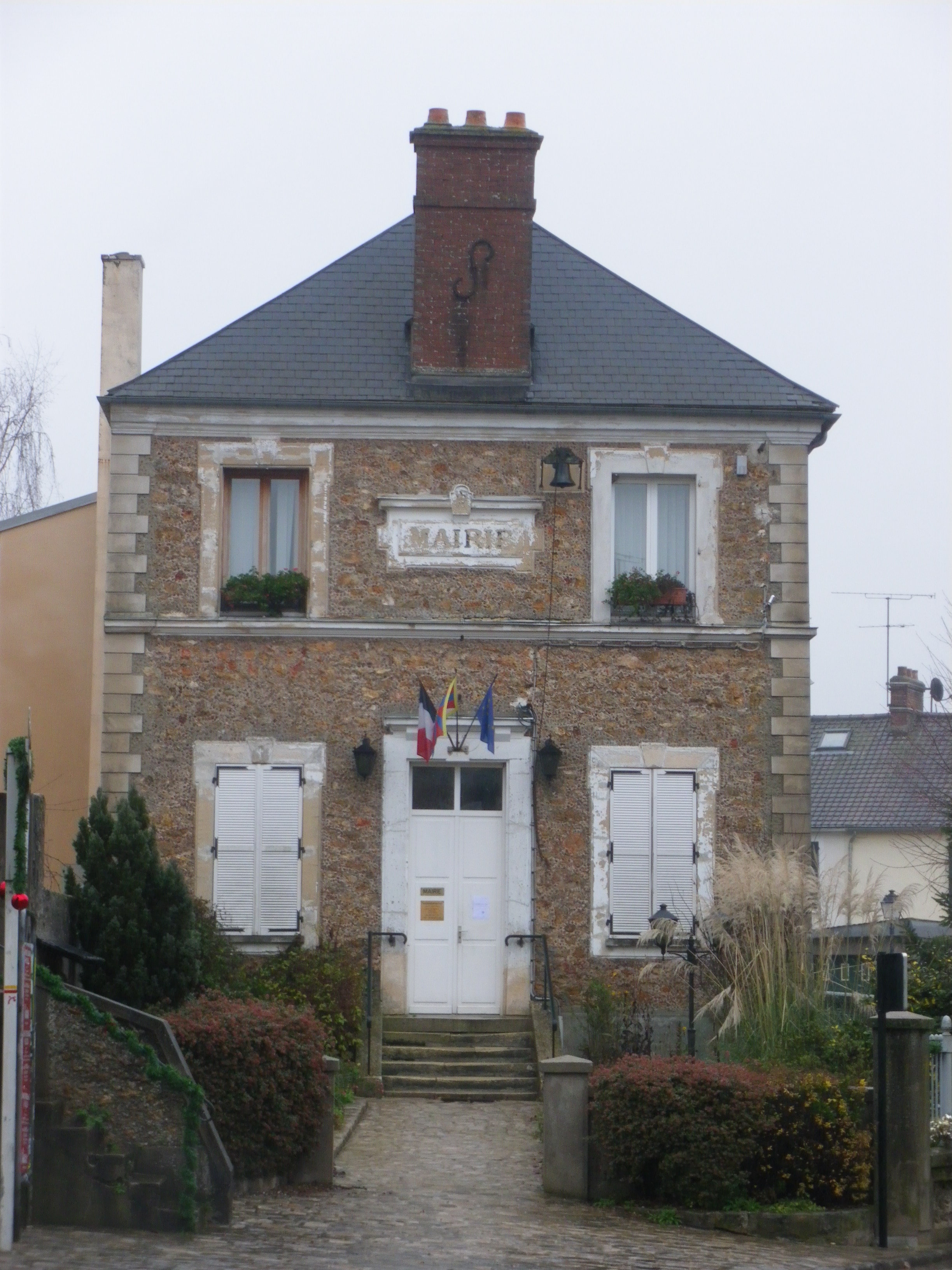 Janvry town hall, Essonne, France